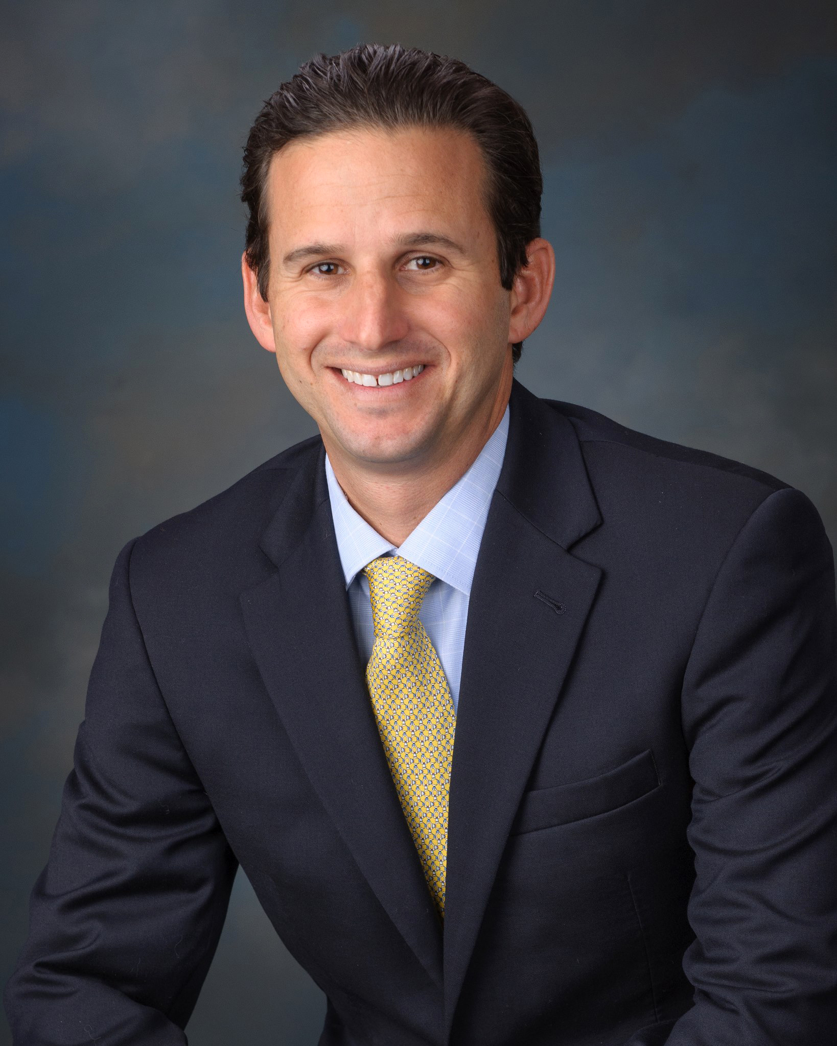 Official portrait of Senator Brian Schatz (D-HI)